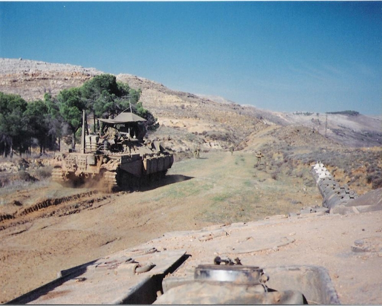 1995 פתיחת ציר שיצאה מעיישיה לריחן התמונה צולמה על ידי עמיחי טובן